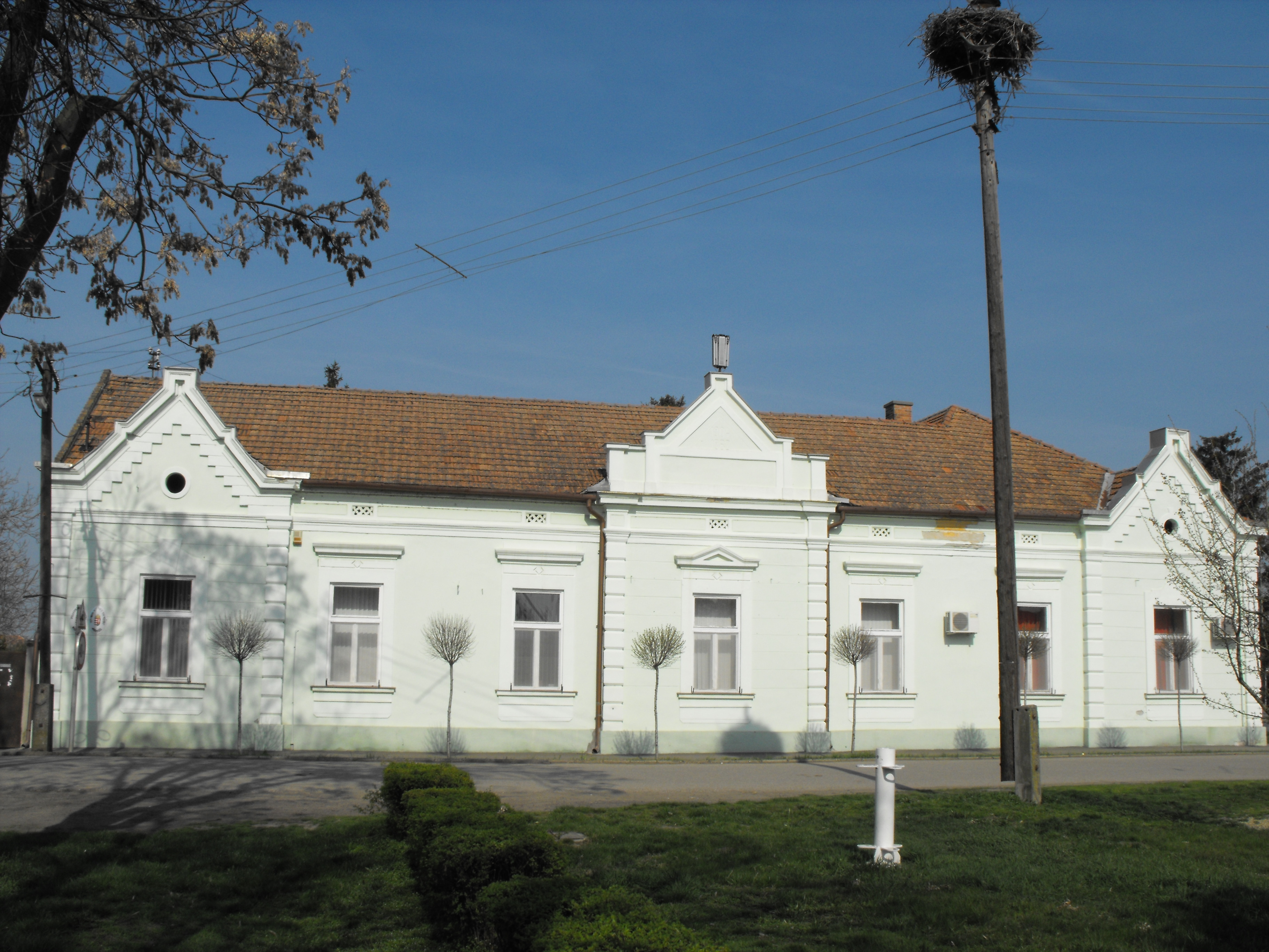 The Village Hall of Maroslele, Hungary.